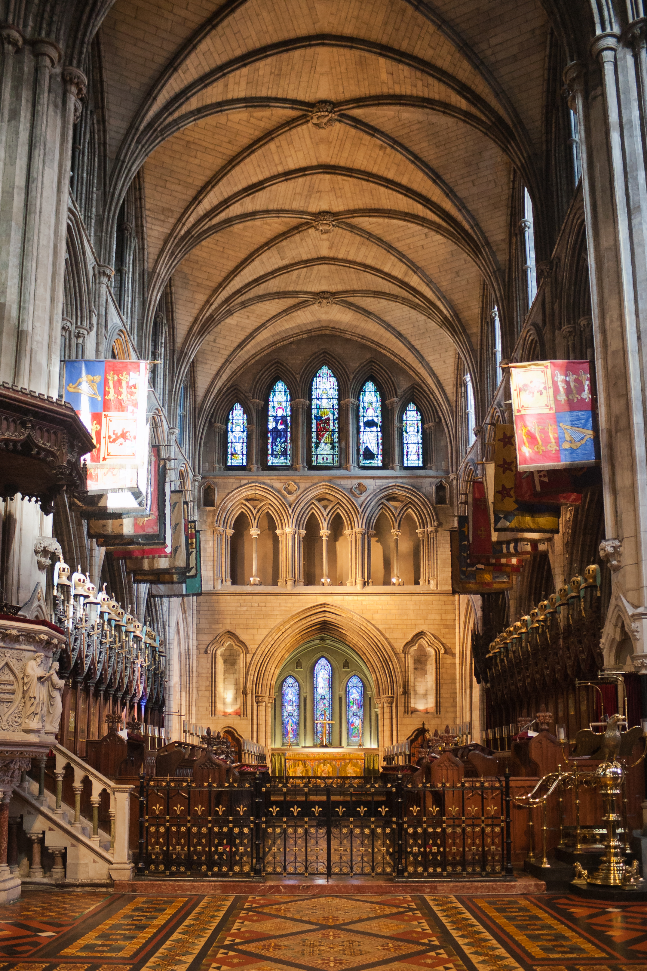 Choir as seen from the nave. Much of this (including the vault and the east wall) was restored and remodelled by the Dublin architect Sir Thomas Drew c. 1901, see Christine Casey: The Buildings of Ireland: Dublin, ISBN 978-0-300-10923-8, p. 608.